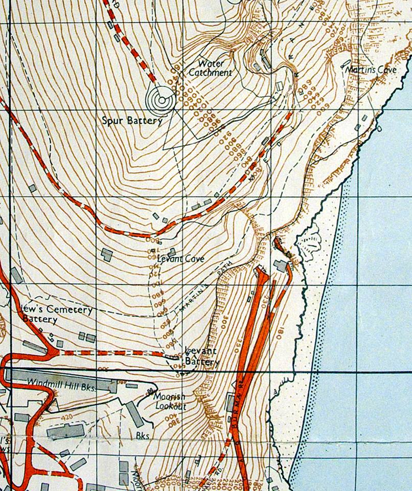 South east section of a map of Gibraltar published by the UK War Office and Air Ministry in 1961.